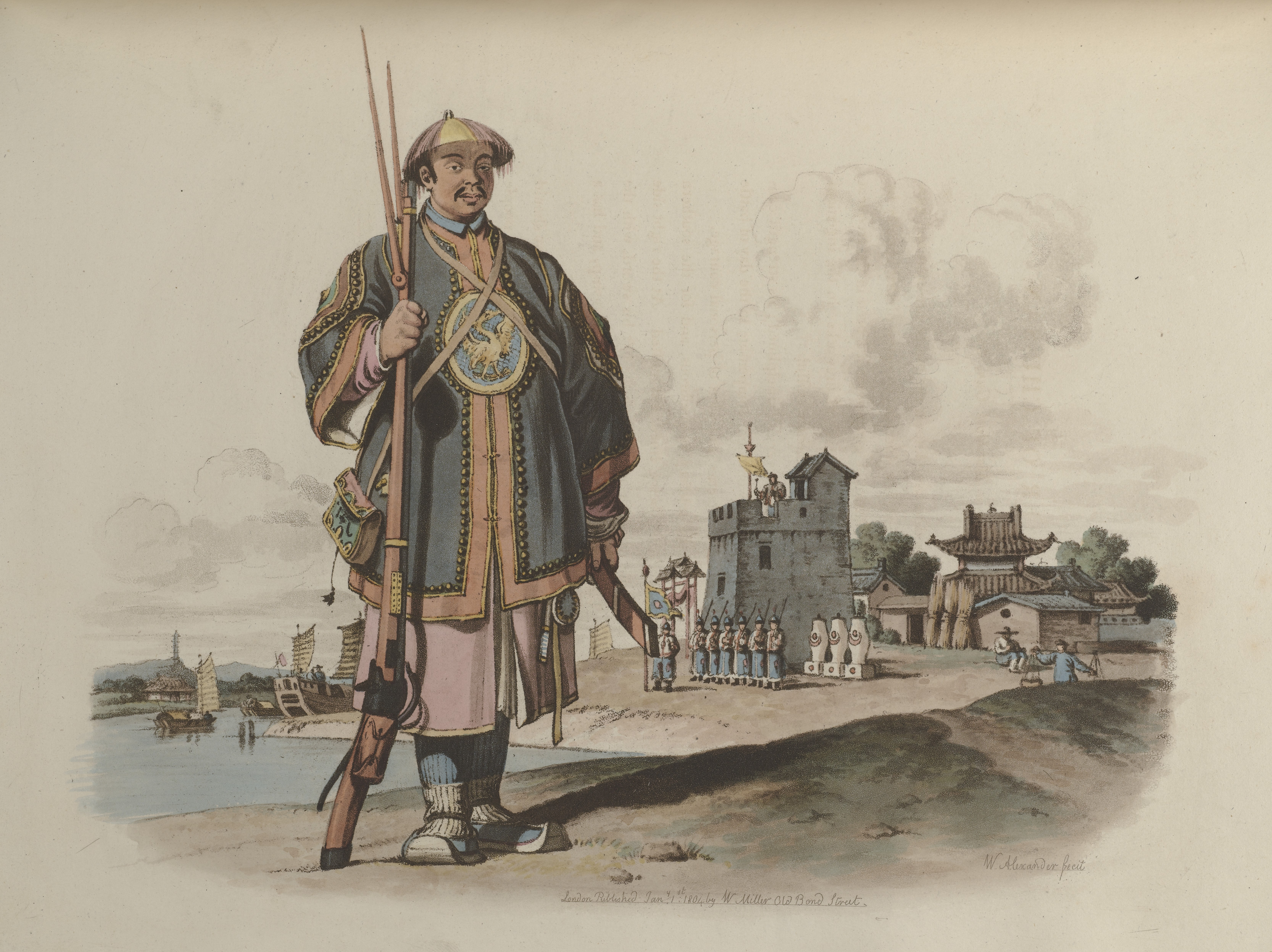 A Soldier of Chu-San, armed with a Matchlock Gun Rare Books Keywords: Clothes